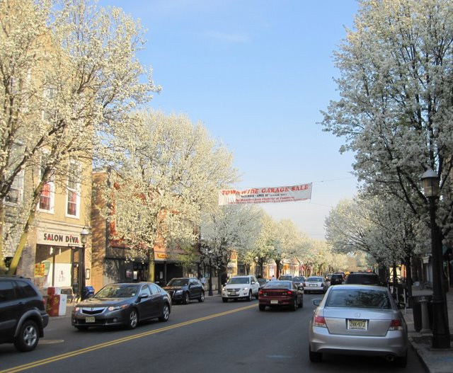 Main Street, Metuchen (April morning)